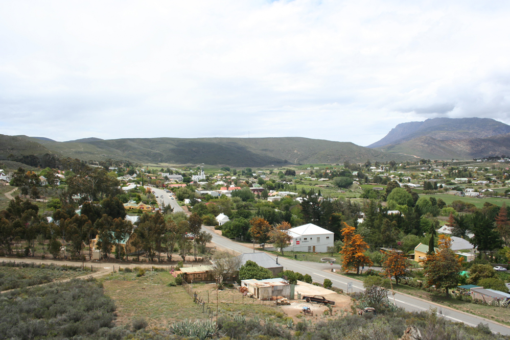 skyline of the town of Barrydale, South Africa